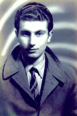 photo: antonis katinaris source: Black moon license: authorized by family of the pictured person, GNU Free Documentation License